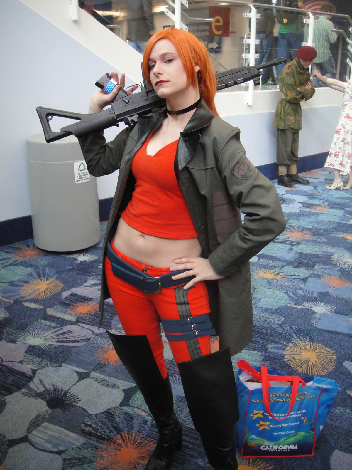 photo 2012 Pop Culture Geek taken by Doug Kline If you're interested in higher resolution versions of my images, contact me via my profile page.